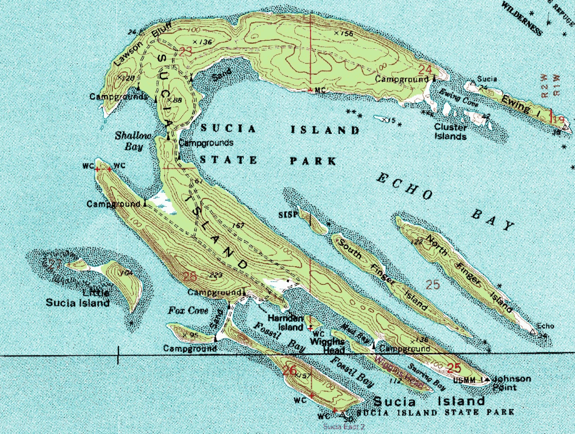 USGS topographical map of Sucia Island.